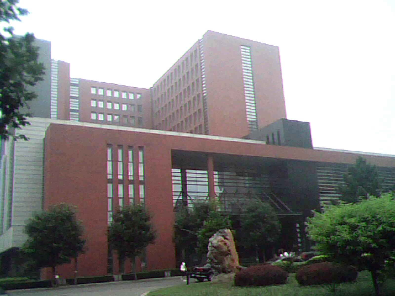 Beijing University of Technology campus